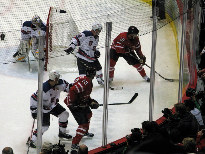 Canada forward Jonathan Toews (#16 in red) guards the puck against United States defenseman Ryan Suter (#20 in white) as Brenden Morrow (#10 in red) tries to assist; goaltender Ryan Miller observes the action during the 2010 Winter Olympics